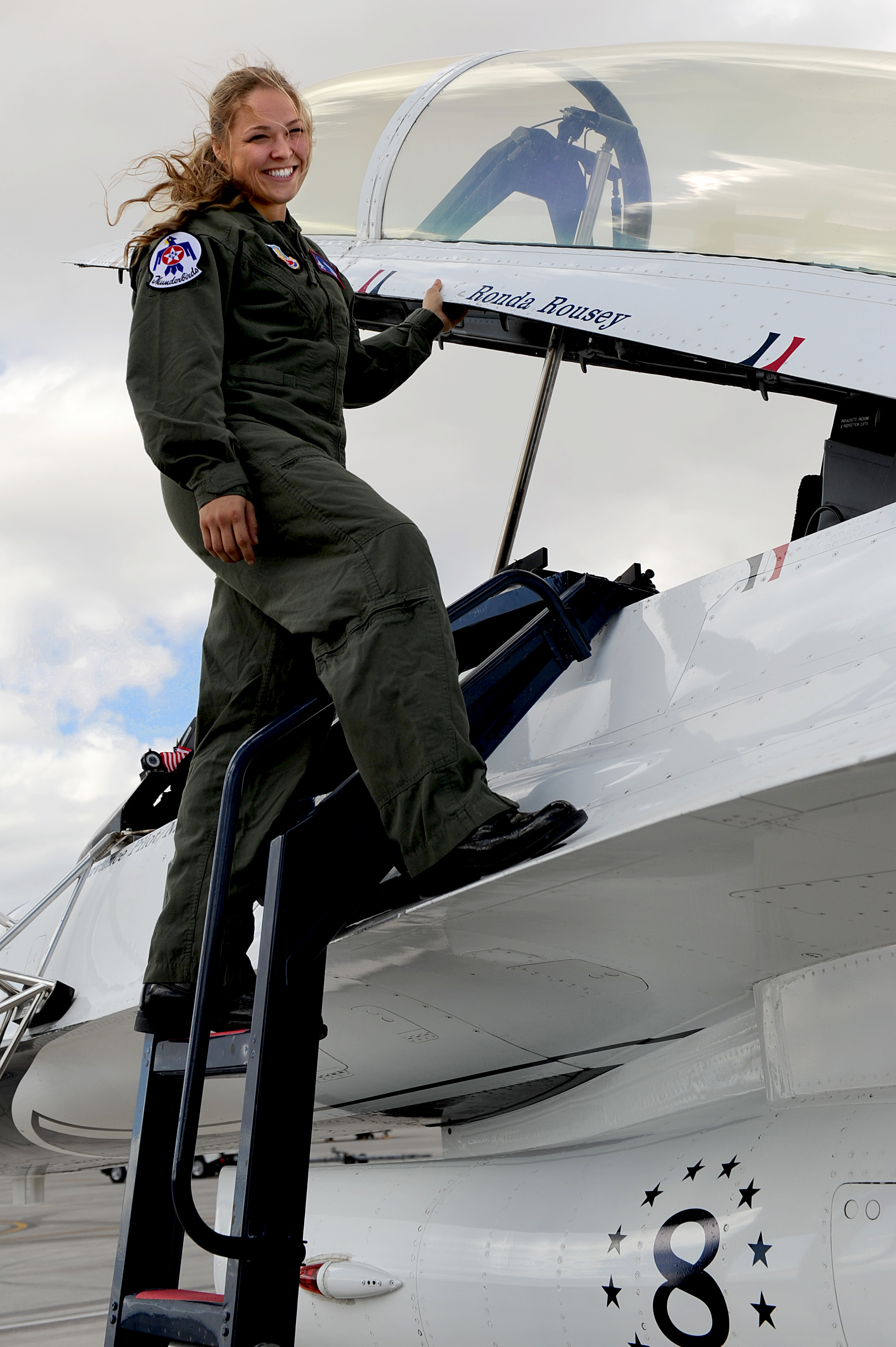 Mixed martial artist champion, Ronda Rousey poses next to her name before her Thunderbirds F-16 flight, at Nellis Air Force Base, Nev., Nov. 9, 2012.